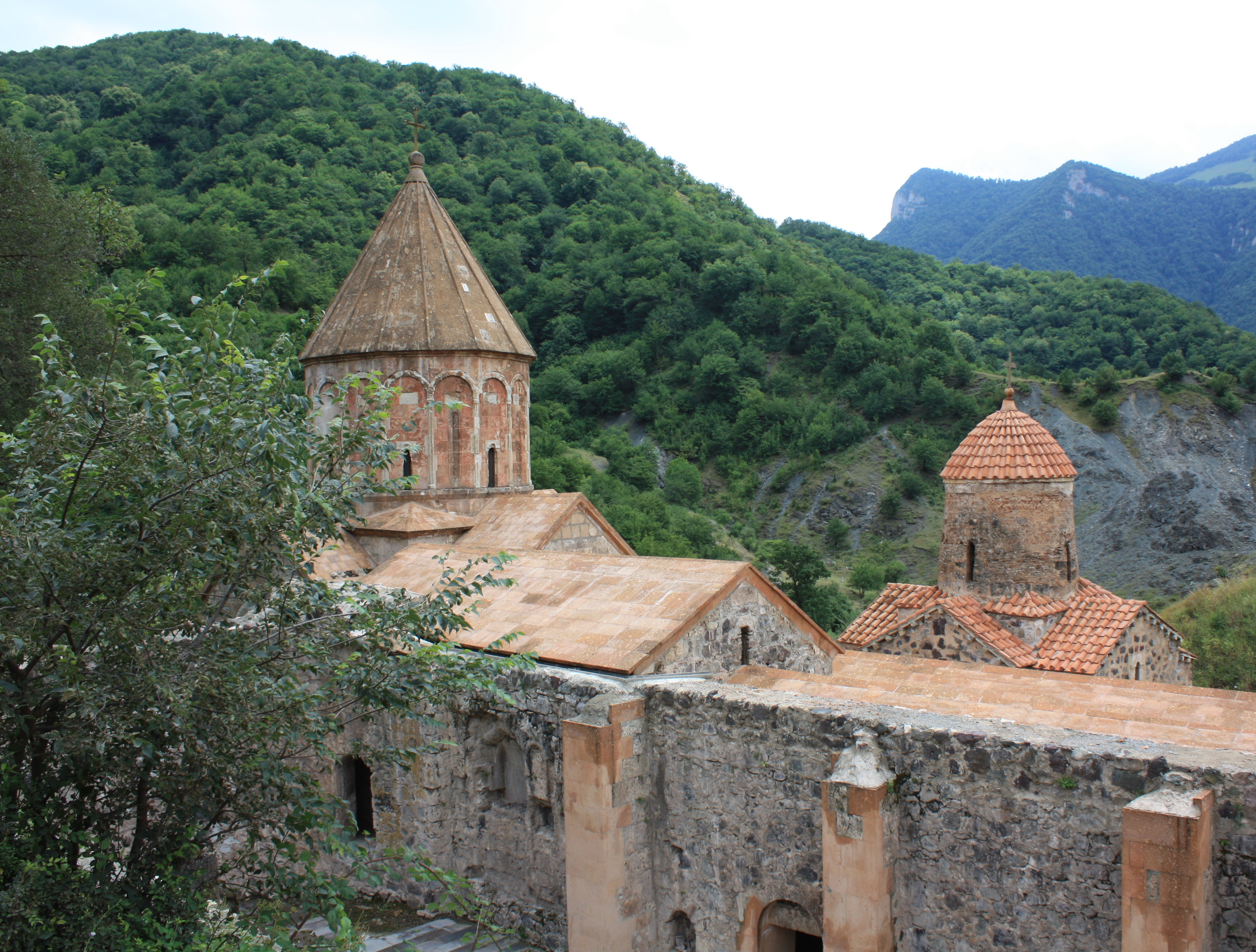 Arzu-Hatun Cathedral (left) and Hasan the Great church, Dadivank Monastery, Nagorno-Karabakh